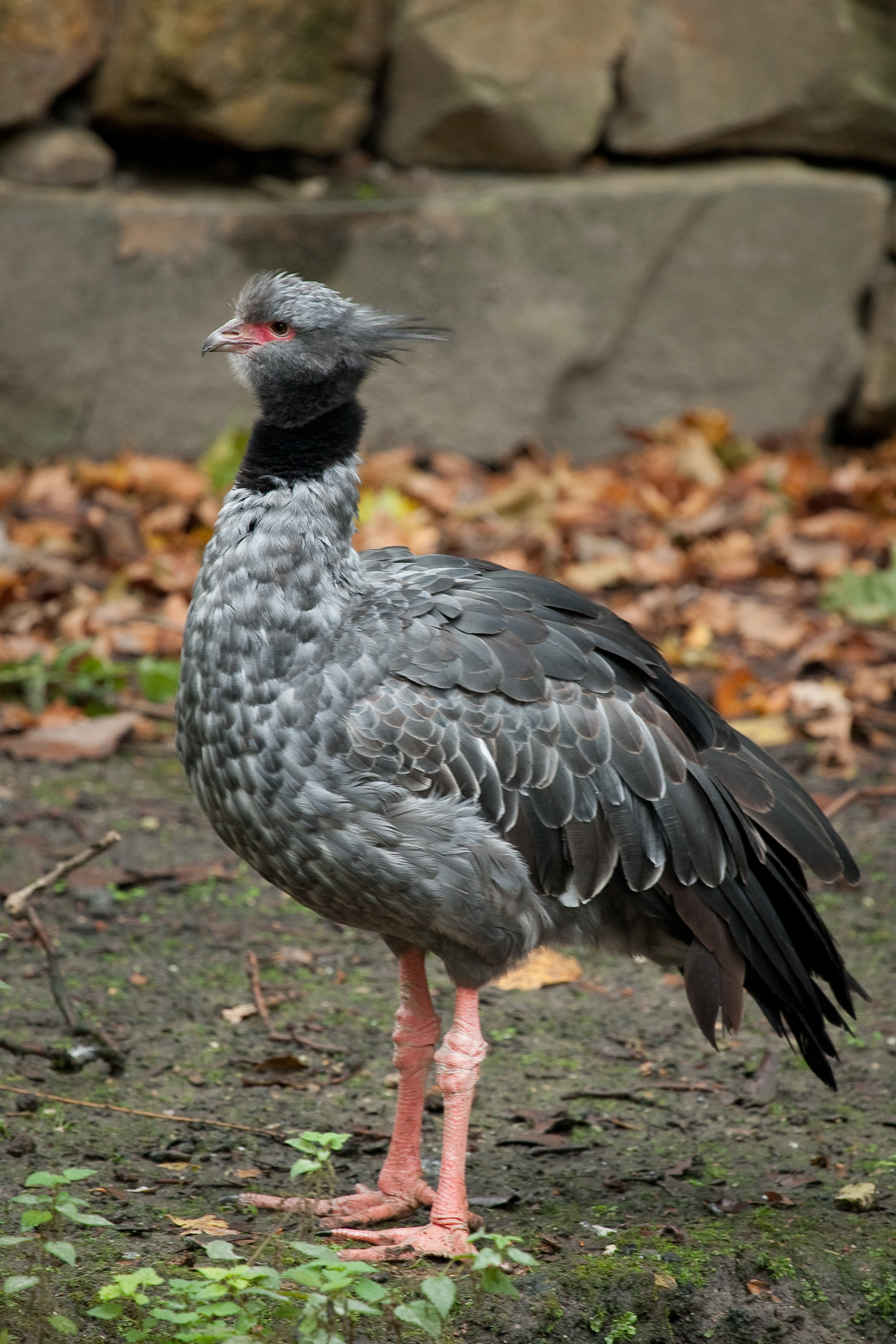 Southern Screamer (also known as the Crested Screamer) at Artis Zoo, Netherlands.